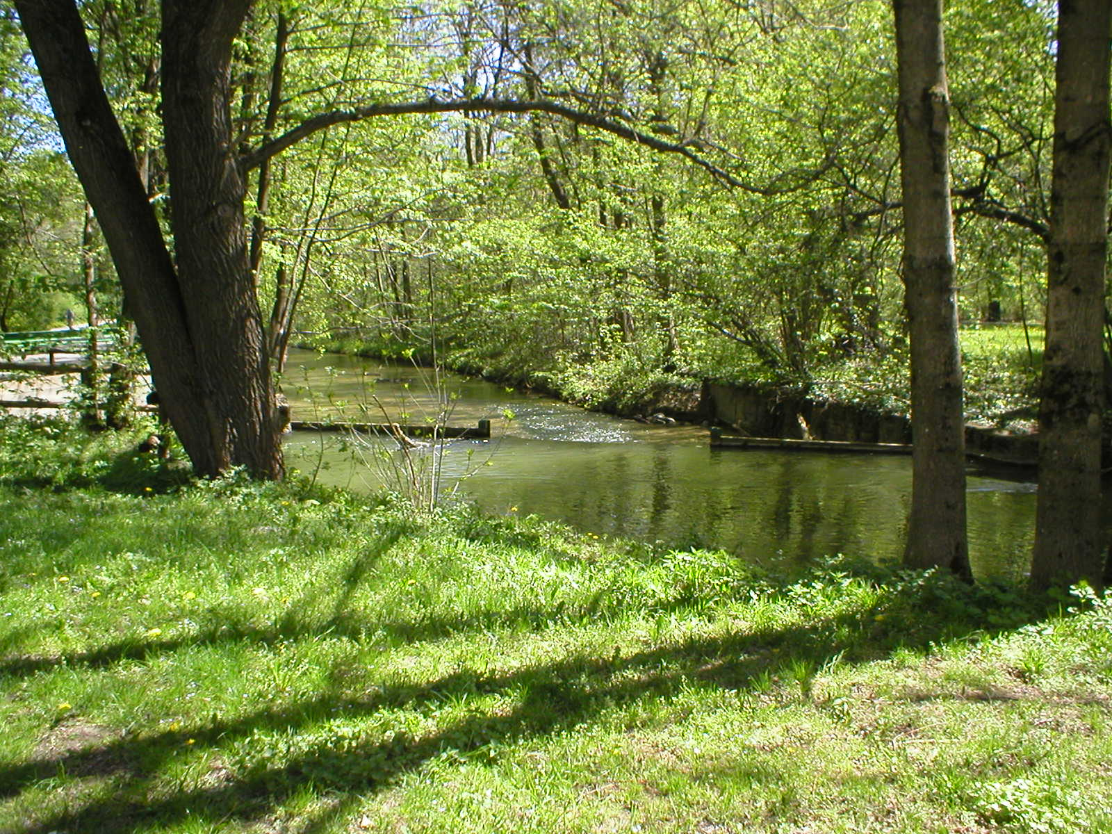 Schwabinger Bach, Munich, Englischer Garten, Munich, Germany